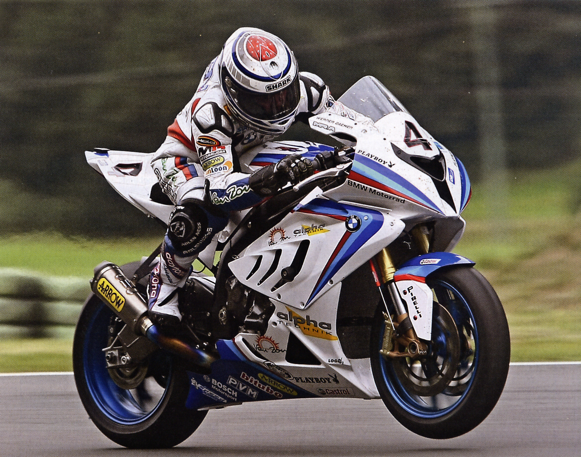 BMW S1000RR on the track